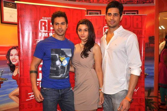 Varun Dhawan, Alia Bhatt and Sidharth Malhotra during Student of the Year promotions.